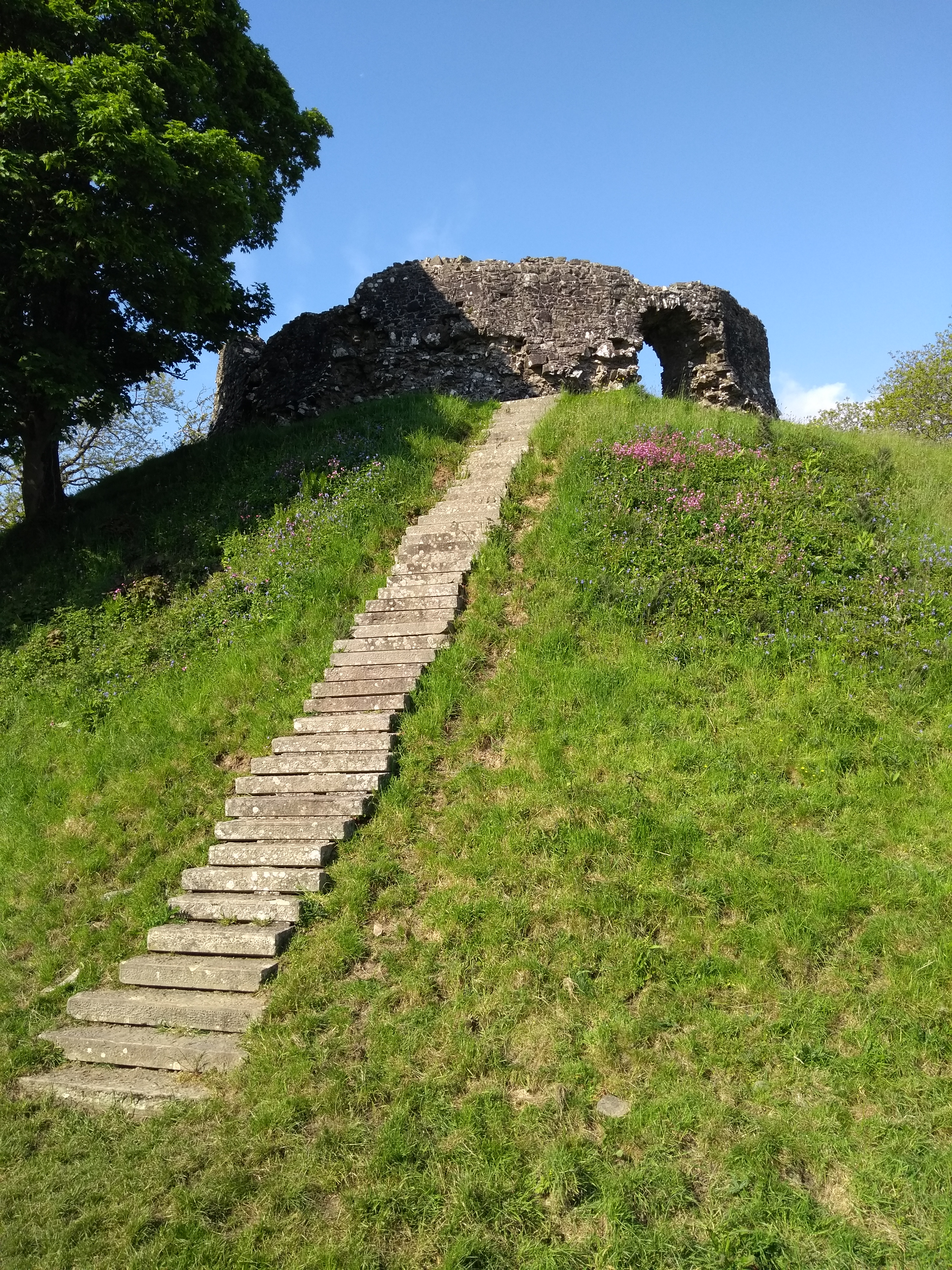 View from the bottom of the Motte at Wiston Castle